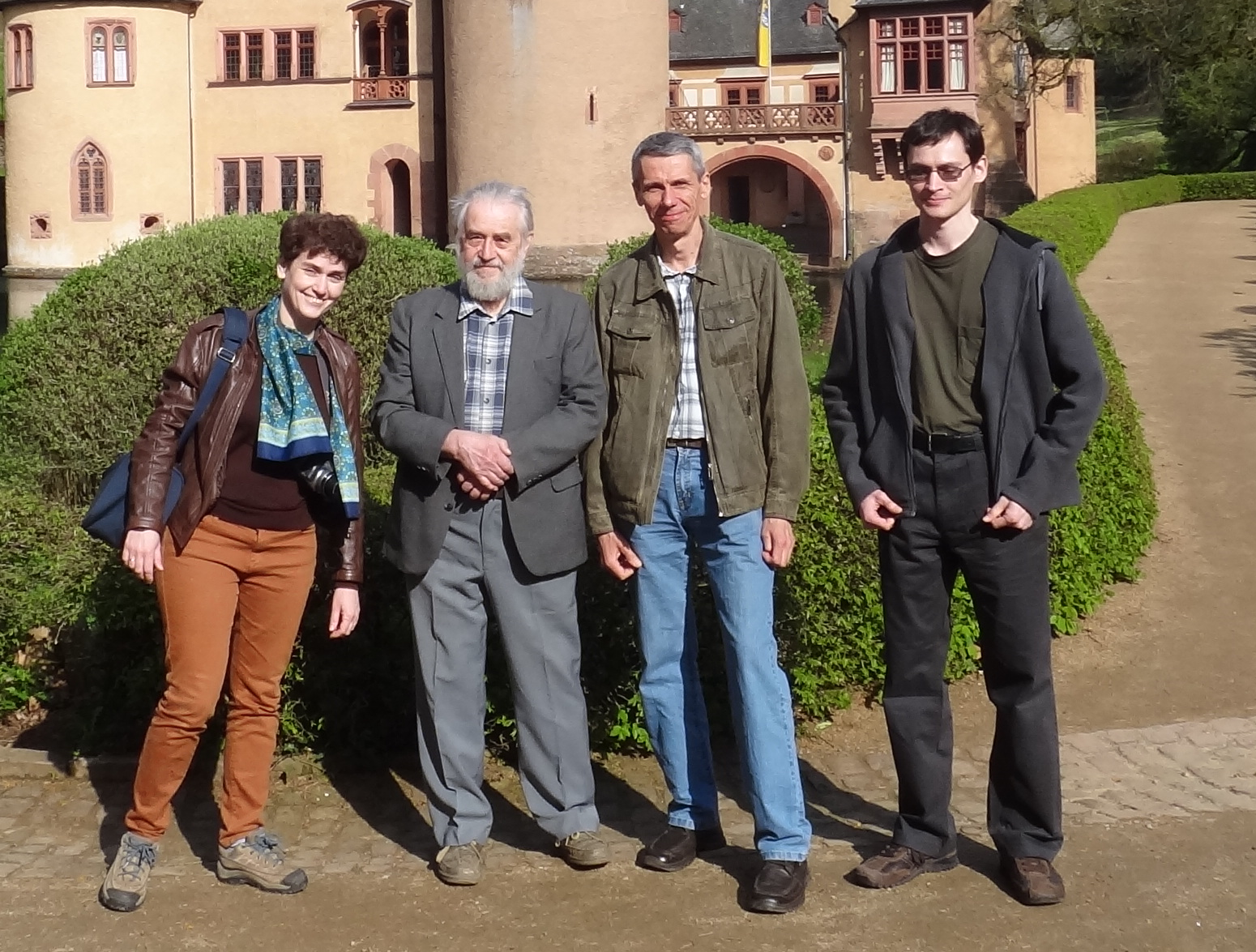 Elena D. Lukashevich, Alexandr G. Ponomarenko, Dmitry E. Shcherbakov and Alexey S. Bashkuev, Laboratory of Arthropods, Borissiak Palaeontological Institute, Russian Academy of Sciences, Moscow, Schloss Mespelbrunn April 2013